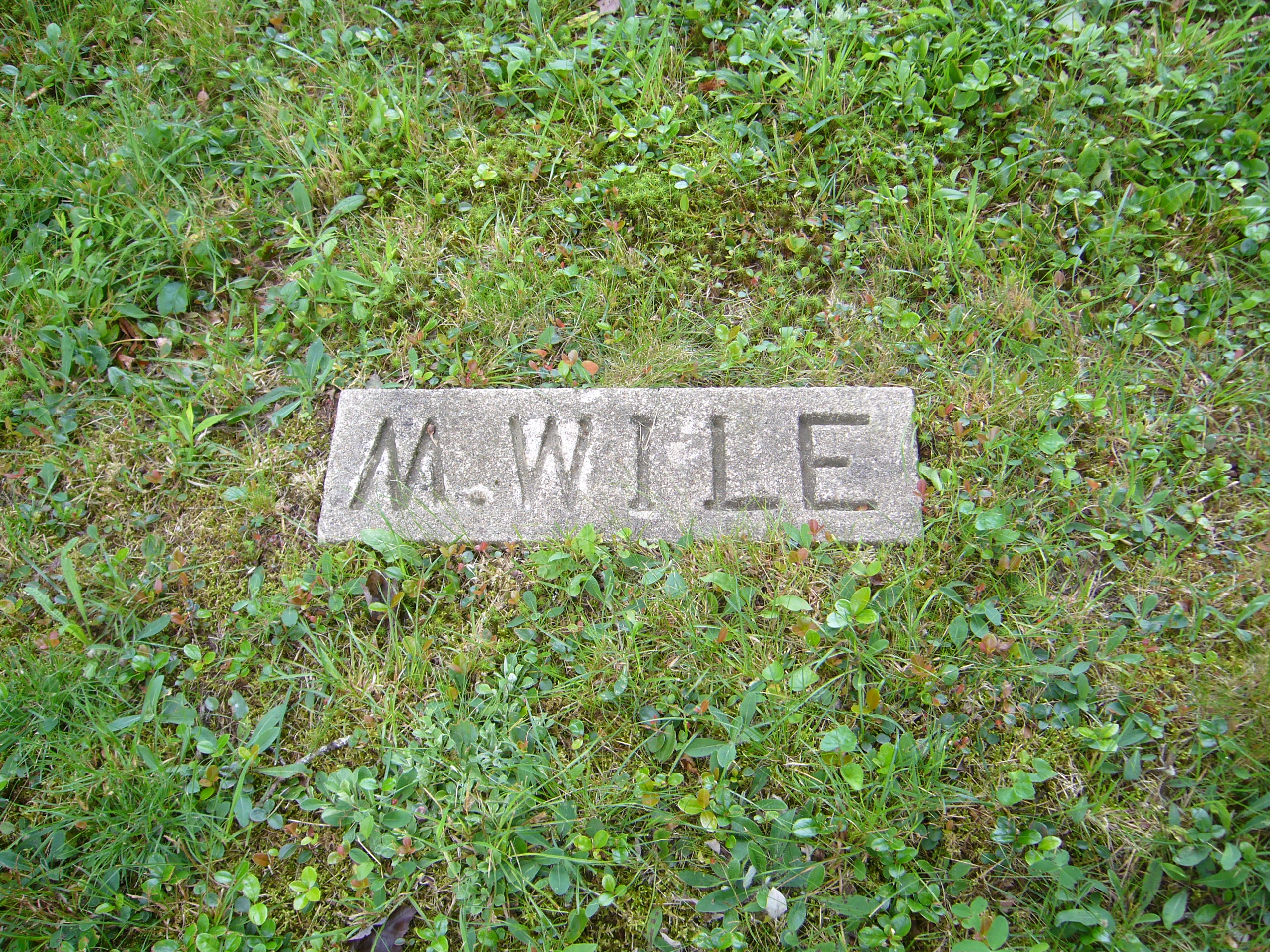 This is the headstone of Waterloo's first European settler--Michael Wile is buried beside his wife Lucy Salome Hirtle in the Waterloo Cemetery.